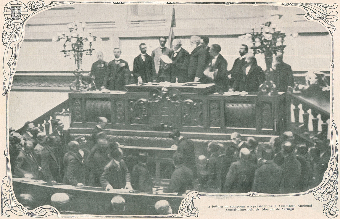 Manuel de Arriaga's inaugural address after being sworn-in as the first President of the Portuguese Republic, on 24 August 1911.